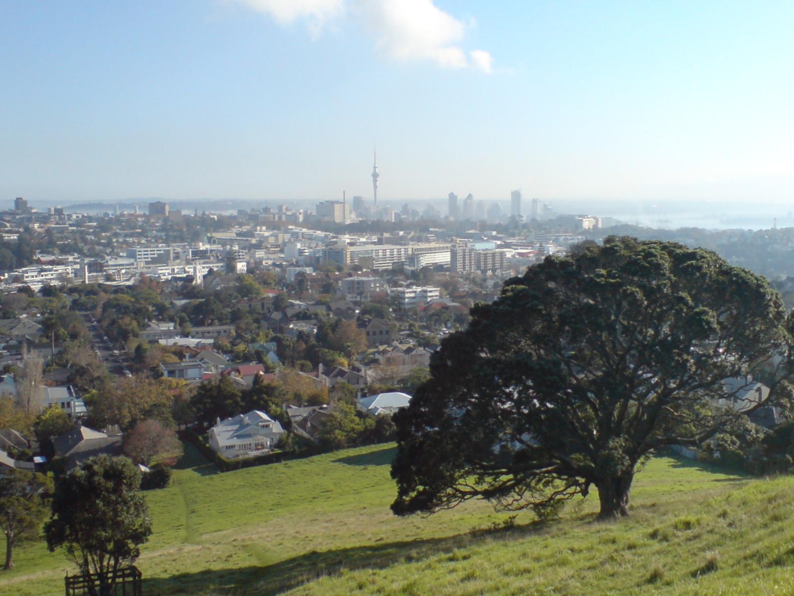 The Newmarket suburb, Auckland, New Zealand as seen from Mount Hobson looking northwest. The Sky Tower in the Auckland CBD in the distance. Broadway, Newmarket's main shopping street, is located between the strip of multistory buildings at the centre of the image, running left to right.